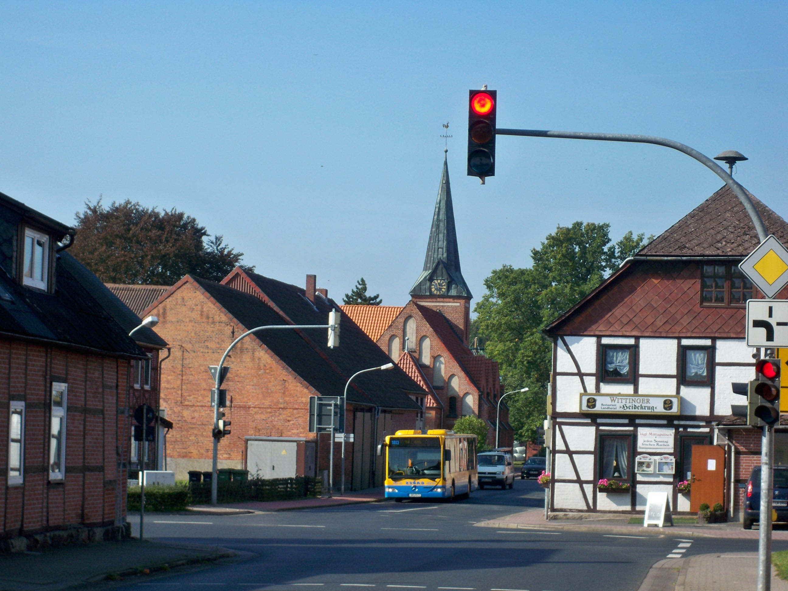 Ehra-Lessien, Lower Saxony, center of Ehra, view from east